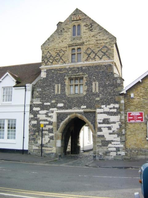 Fishergate, Sandwich. The Barbican and Fishergate are the only remaining gates in the old town wall. Fishergate opens onto The Quay, once a busy trading wharf on the river Stour.